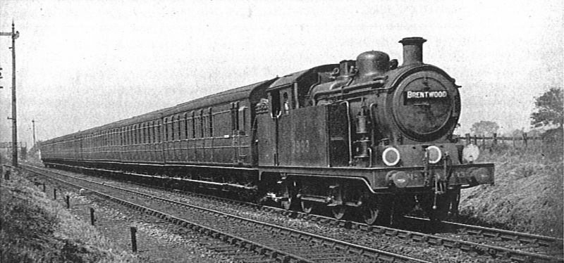 Suburban Train, Great Eastern Section, LNER Note route indicating Discs on front of Locomotive.